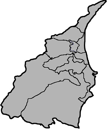 Map of the administrative divisions of Yilan County, Taiwan